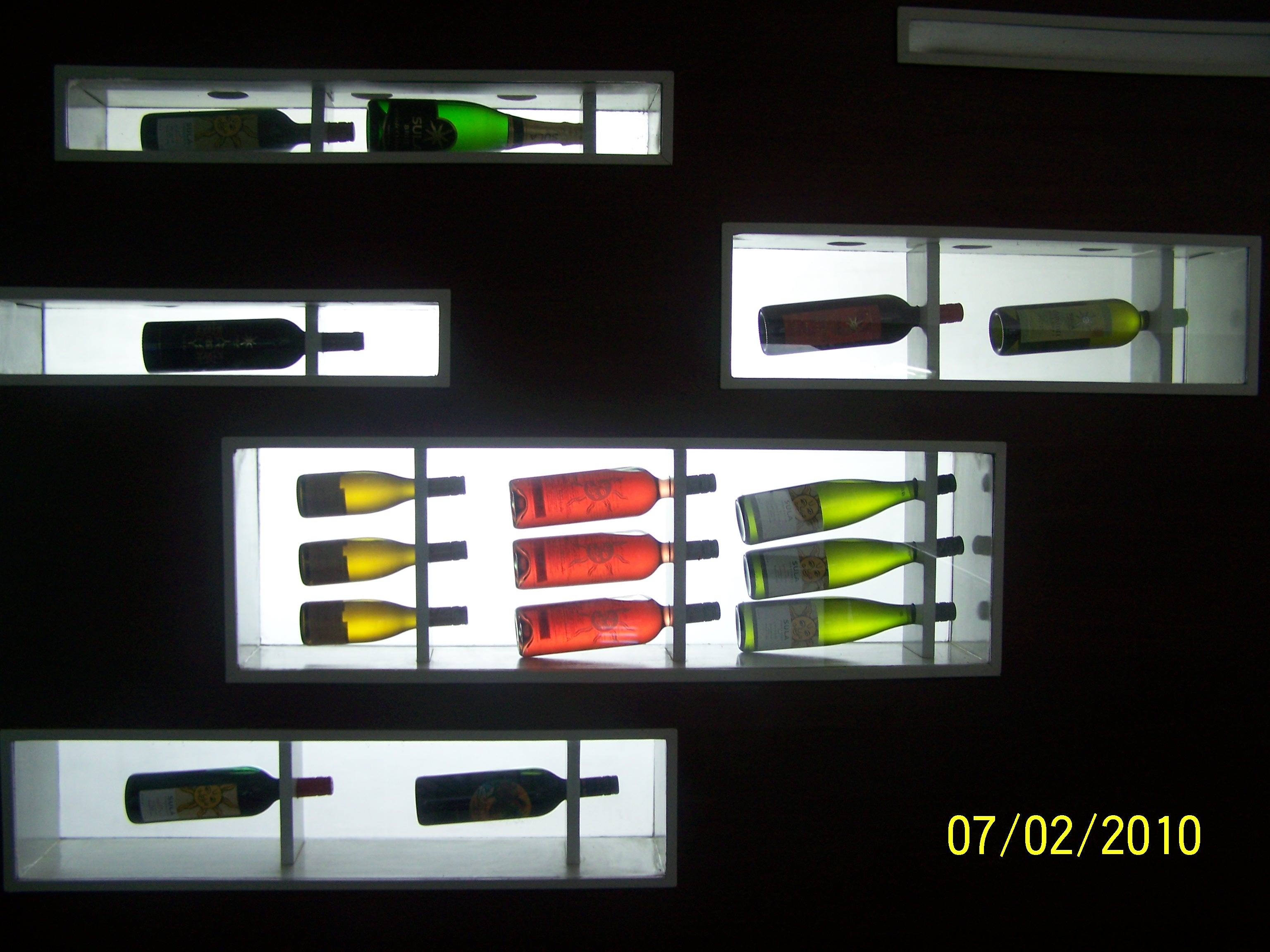 variety of wines sold in sula